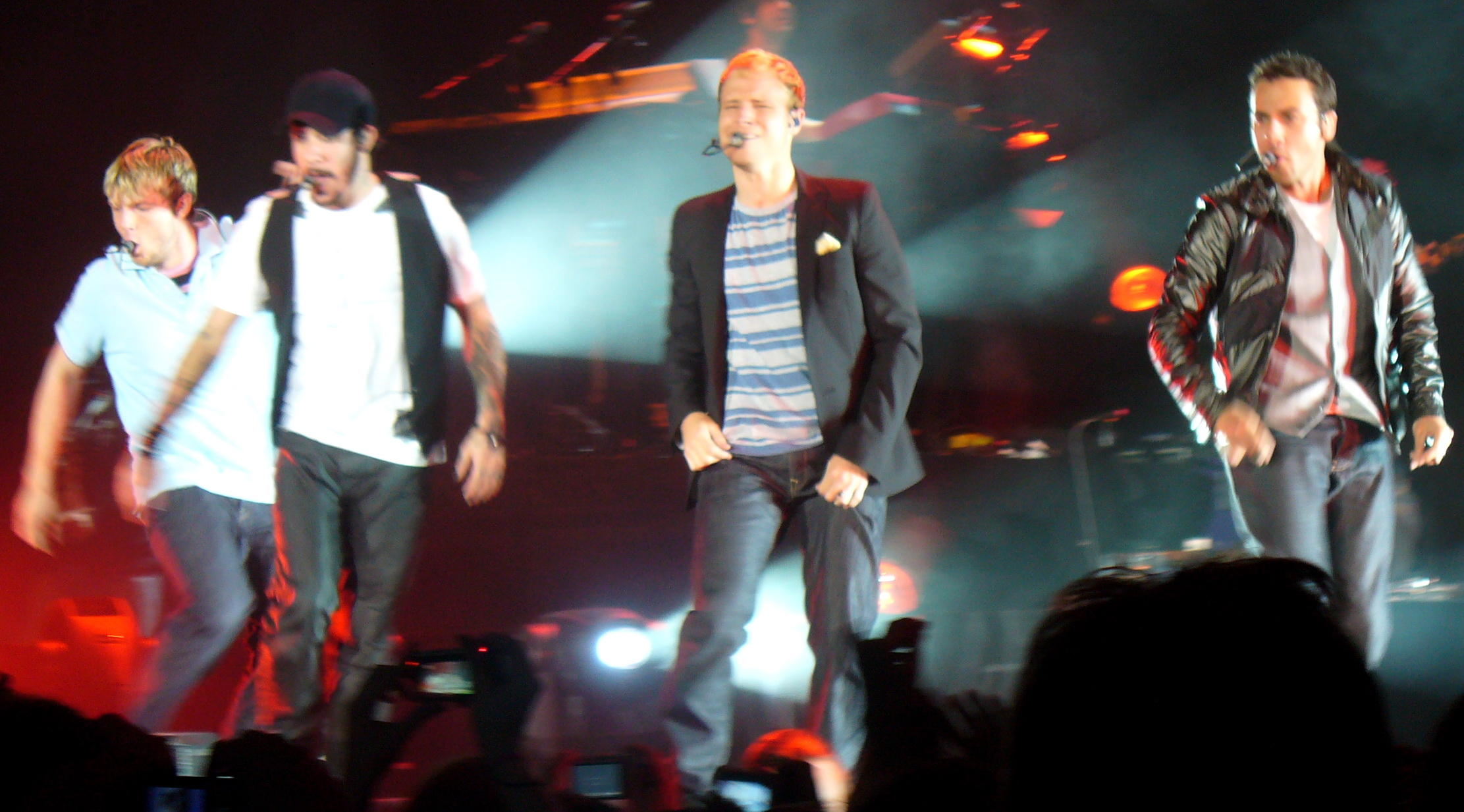 Backstreet Boys performing at the Stockholm, Sweden during The Unbreakable tour. 14 Apr. 2008.